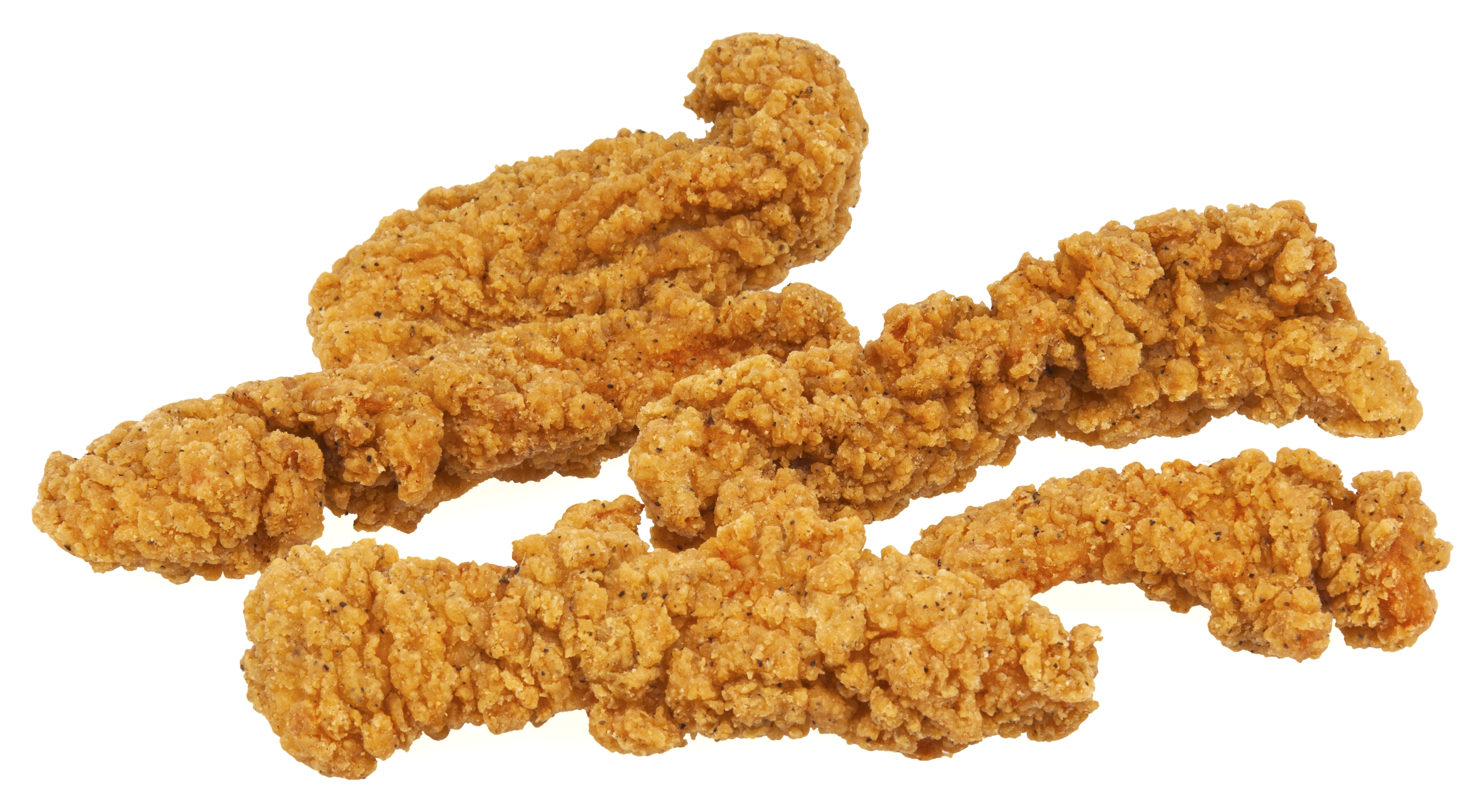 McDonald's Premium Chicken Selects, a more "premium" version of their Chicken McNuggets and sold in the United States.